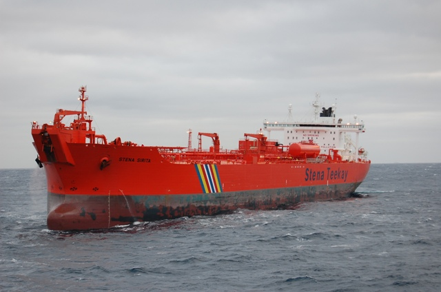 North Sea